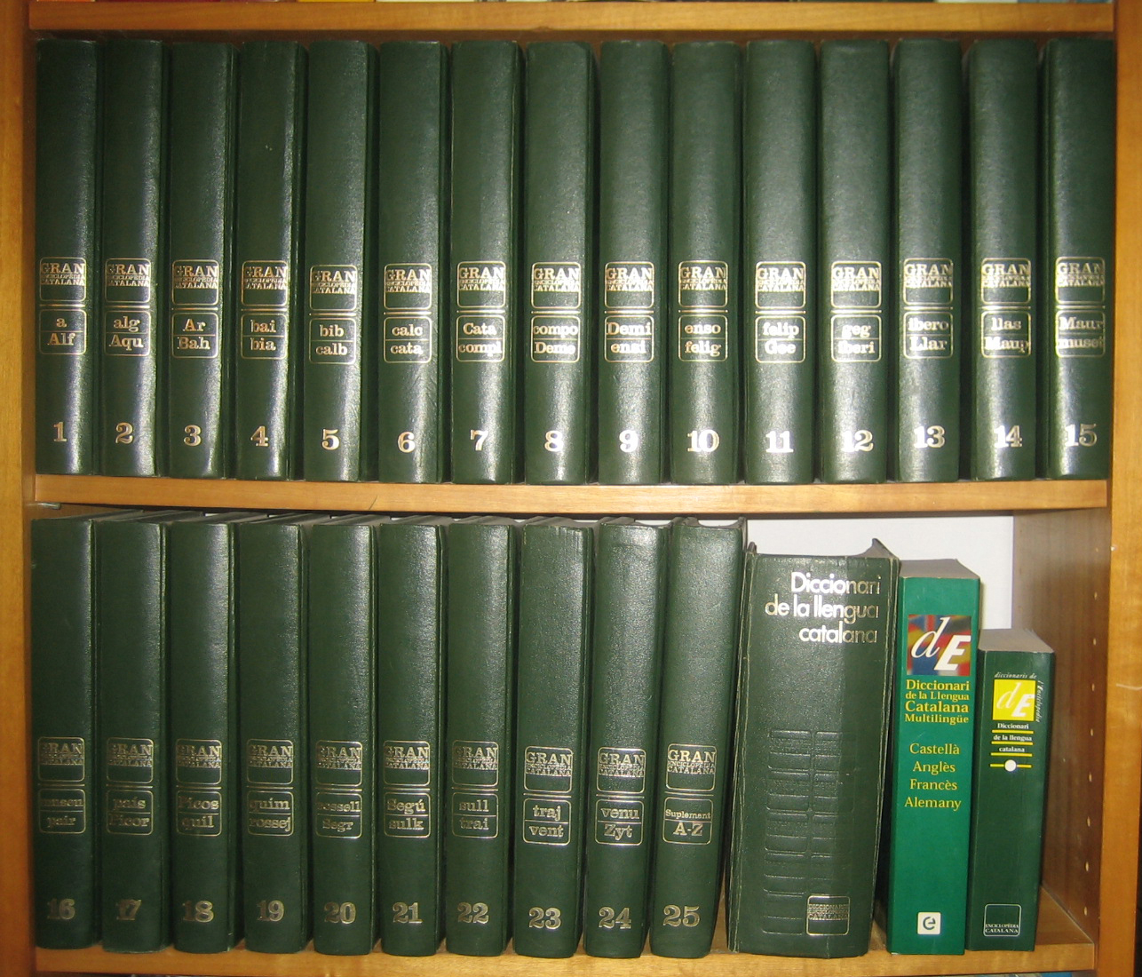 The 25 volumes of "Gran Enciclopèdia Catalana" (translation: Great Catalan Encyclopedia). This version is the first reimpression at april 1988 (from the second edition at june 1986, which is from the first edition of the Encyclopedia at july 1969). This is the main catalan source of knowledge printed in paper, edited a lot of times until now, 2009. On the right down corner there are the "Diccionari de la Llengua Catalana" (translation: Dictionary of the Catalan Language) and the "Diccionari de la Llengua Catalana Multilingüe. Castellà Anglès Francès Alemany." (translation: Dictionary of the Catalan Language Multilingual. Spanish English French German), this with the new label's non-profit publishing company: Fundació Enciclopèdia Catalana (Catalan Encyclopedia Foundation). The last book is a smaller version of the dictionary.